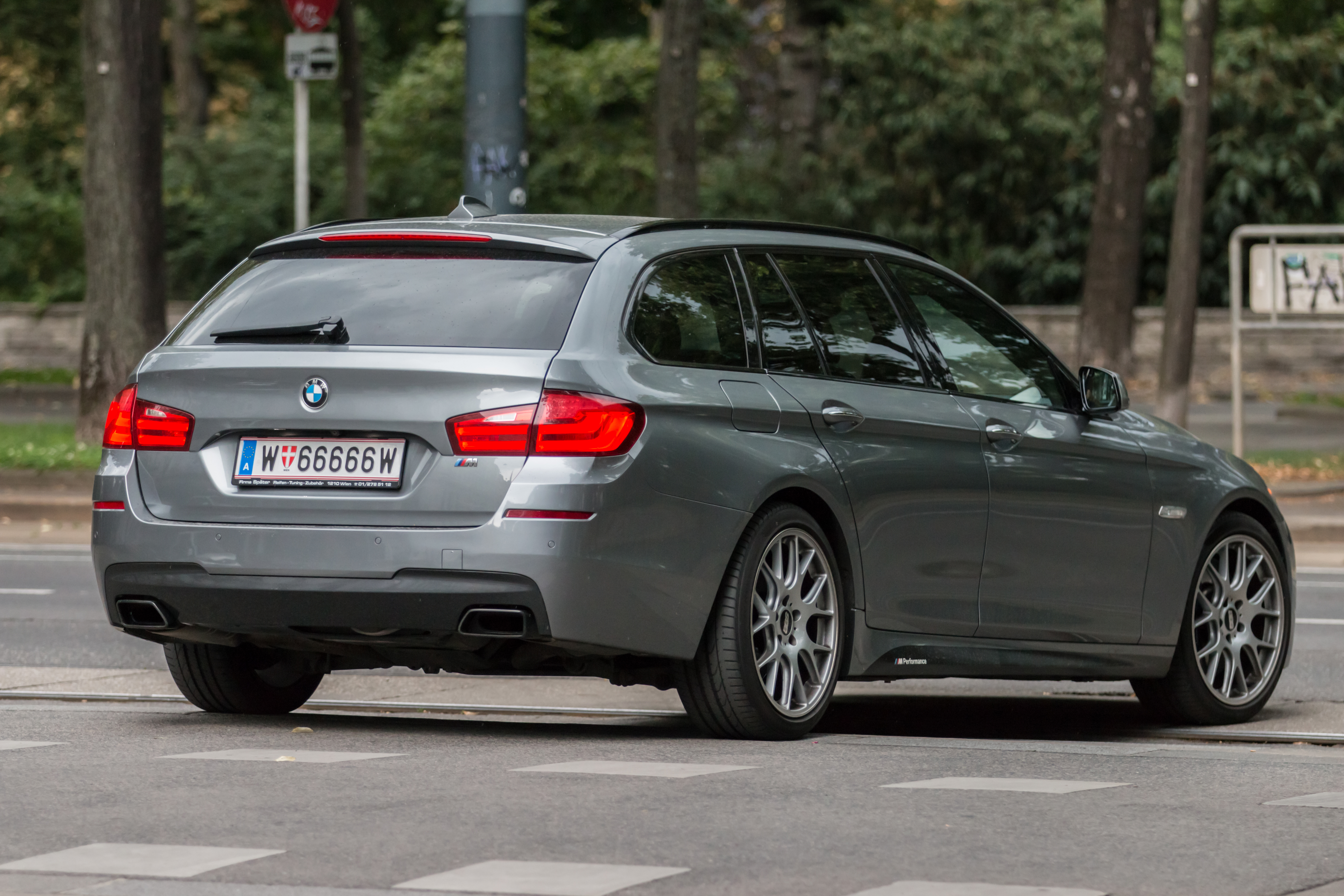 BMW F11